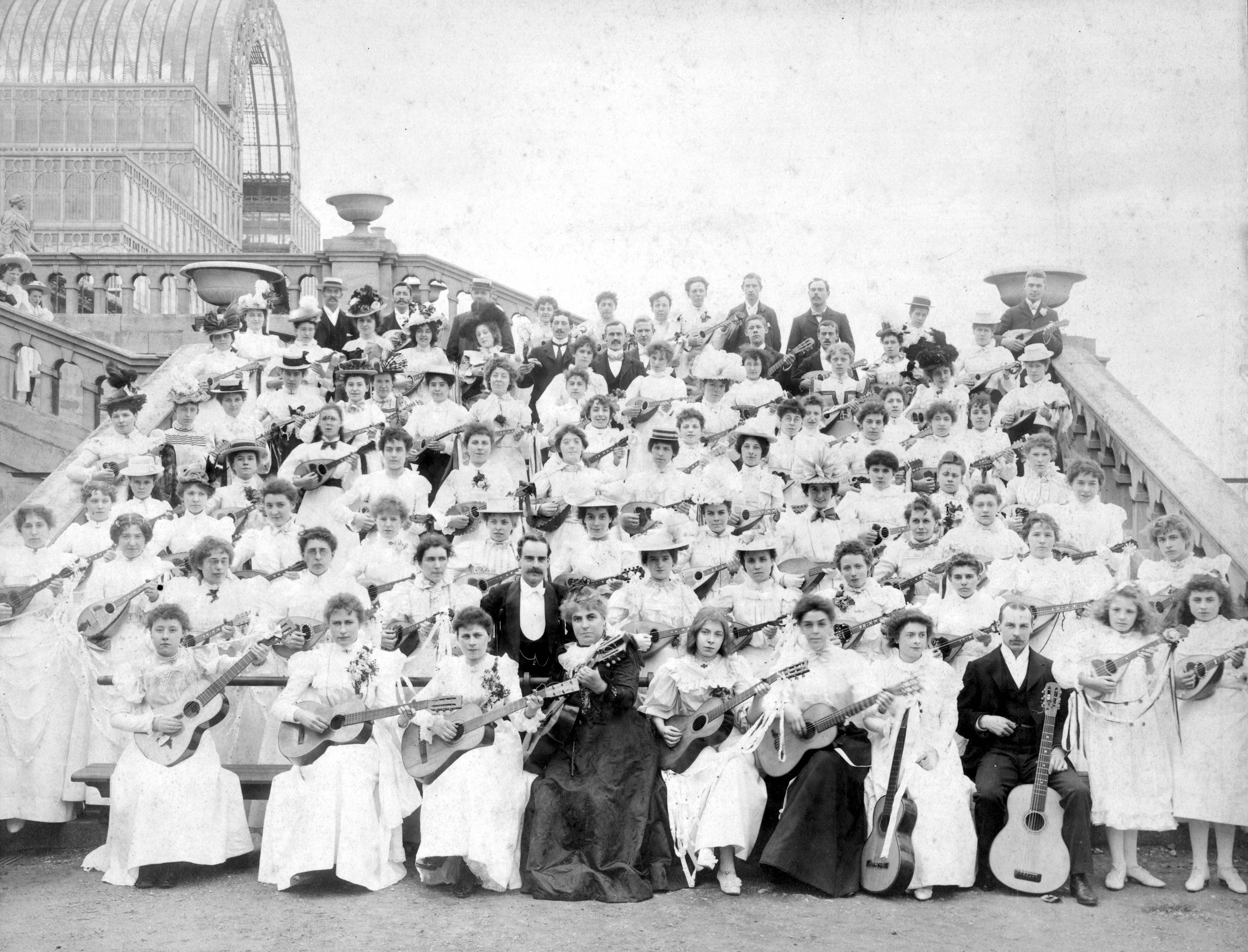 Ninety-two members of the Polytechnic and People's Palace Mandoline and Guitar Band sitting on the steps in front of the Crystal Palace, Sydenham, London